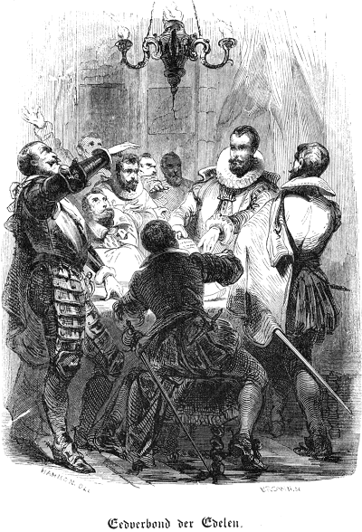 Illustration in Hendrik Conscience, Geschiedenis van België. Spaensch Tydvak:België onder de koningen van Spanje, opposite p. 410, depicting the Compromise of Nobles (Eedverbond der Edelen).